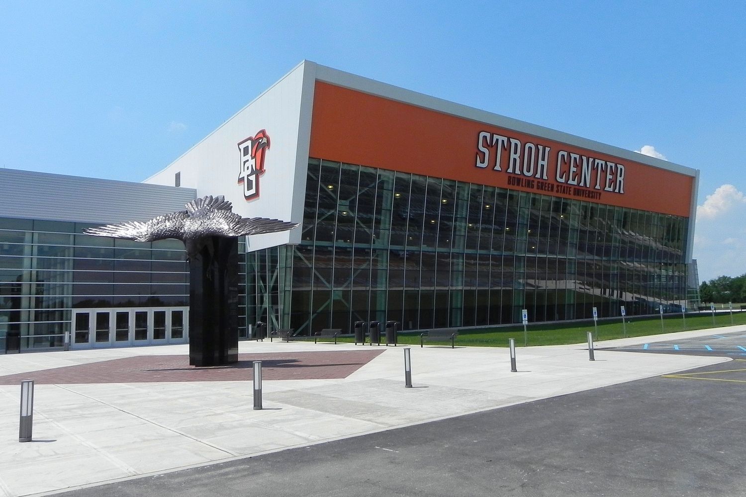 Front of the Stroh Center